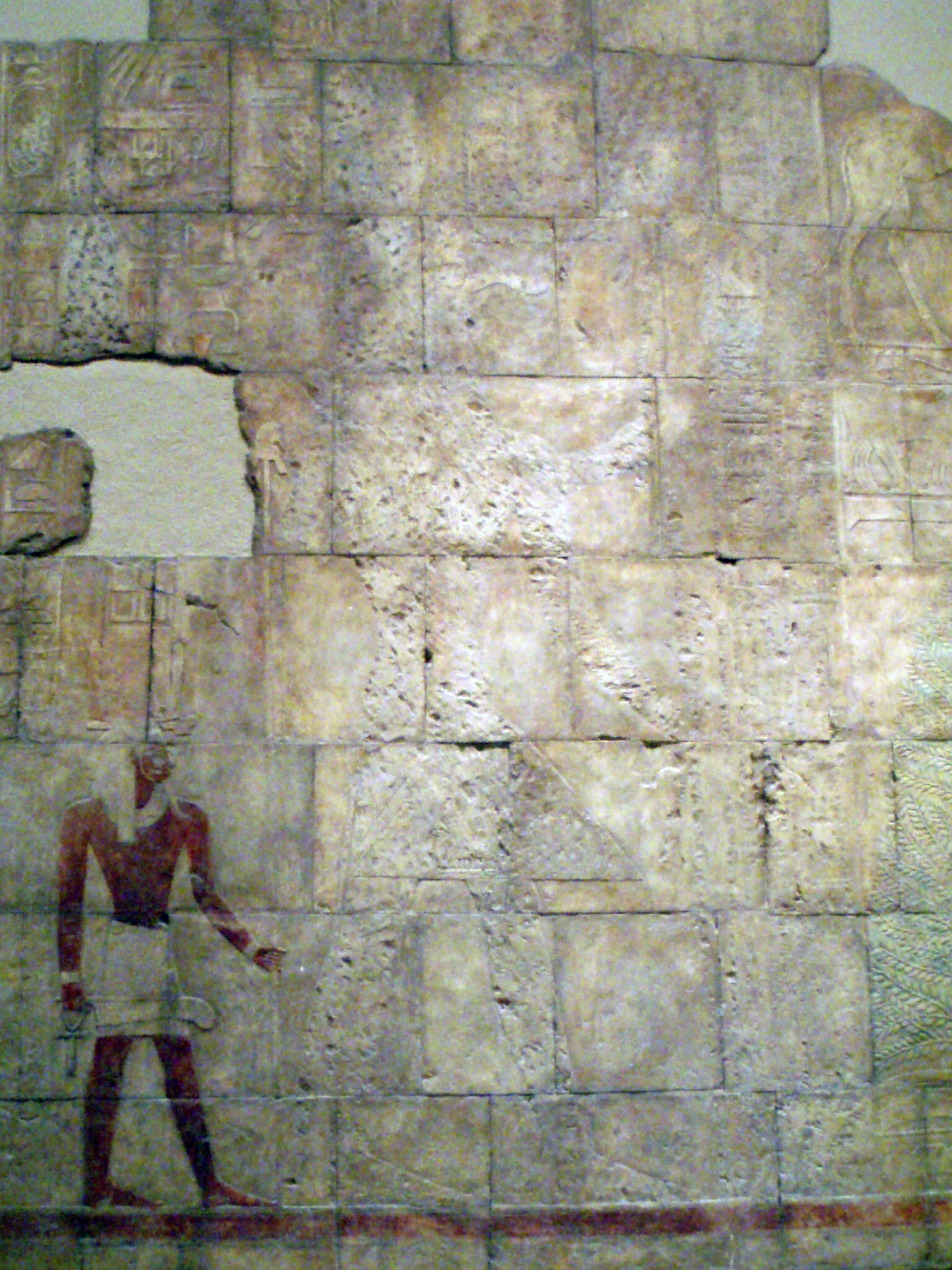 Plaster cast recreation of Queen Hatshepsut's expedition to punt, the image of the Queen deliberately chipped away and removed. From the Ancient Egyptian wing of the Royal Ontario Museum.